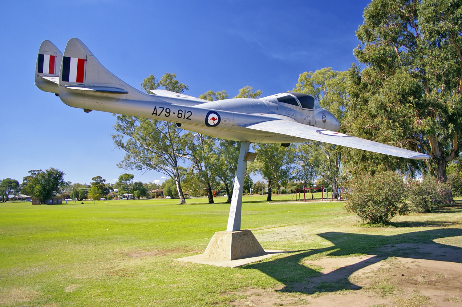 DH Vampire A79-612 at Bolton Park, Wagga Wagga, New South Wales, Australia